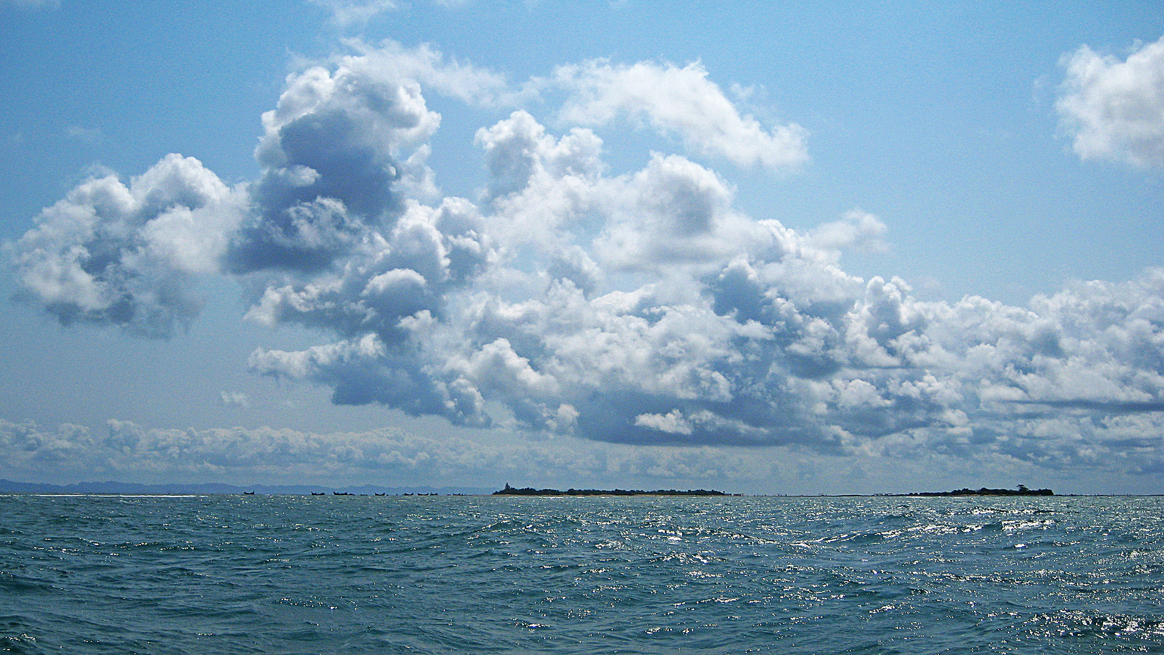 St. Martin's Island in a single view.